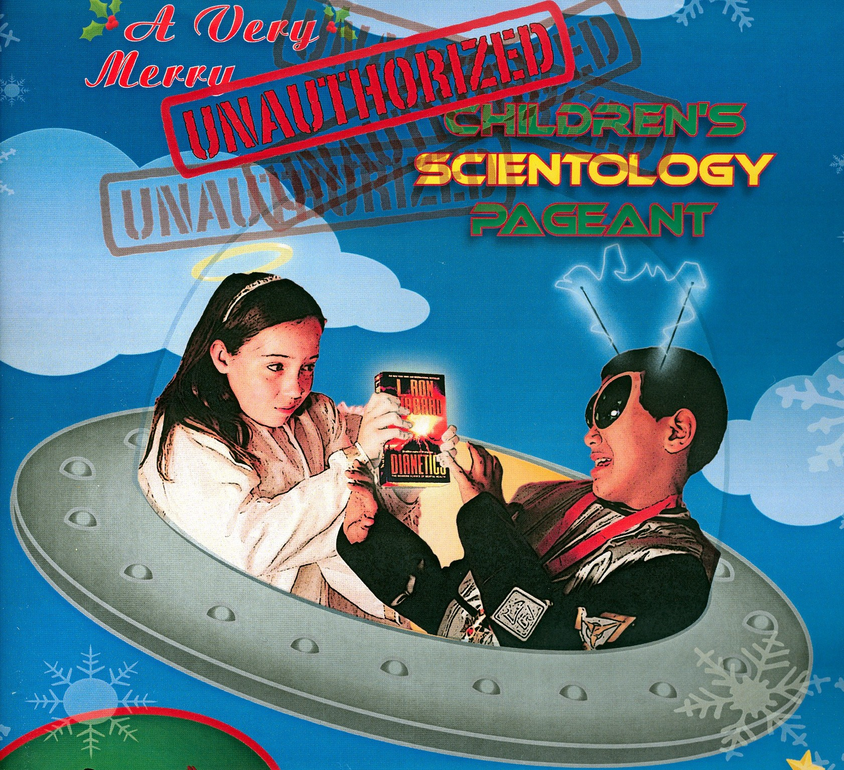 A Very Merry Unauthorized Children's Scientology Pageant, promotional poster for the 2007 production by Brat Productions.